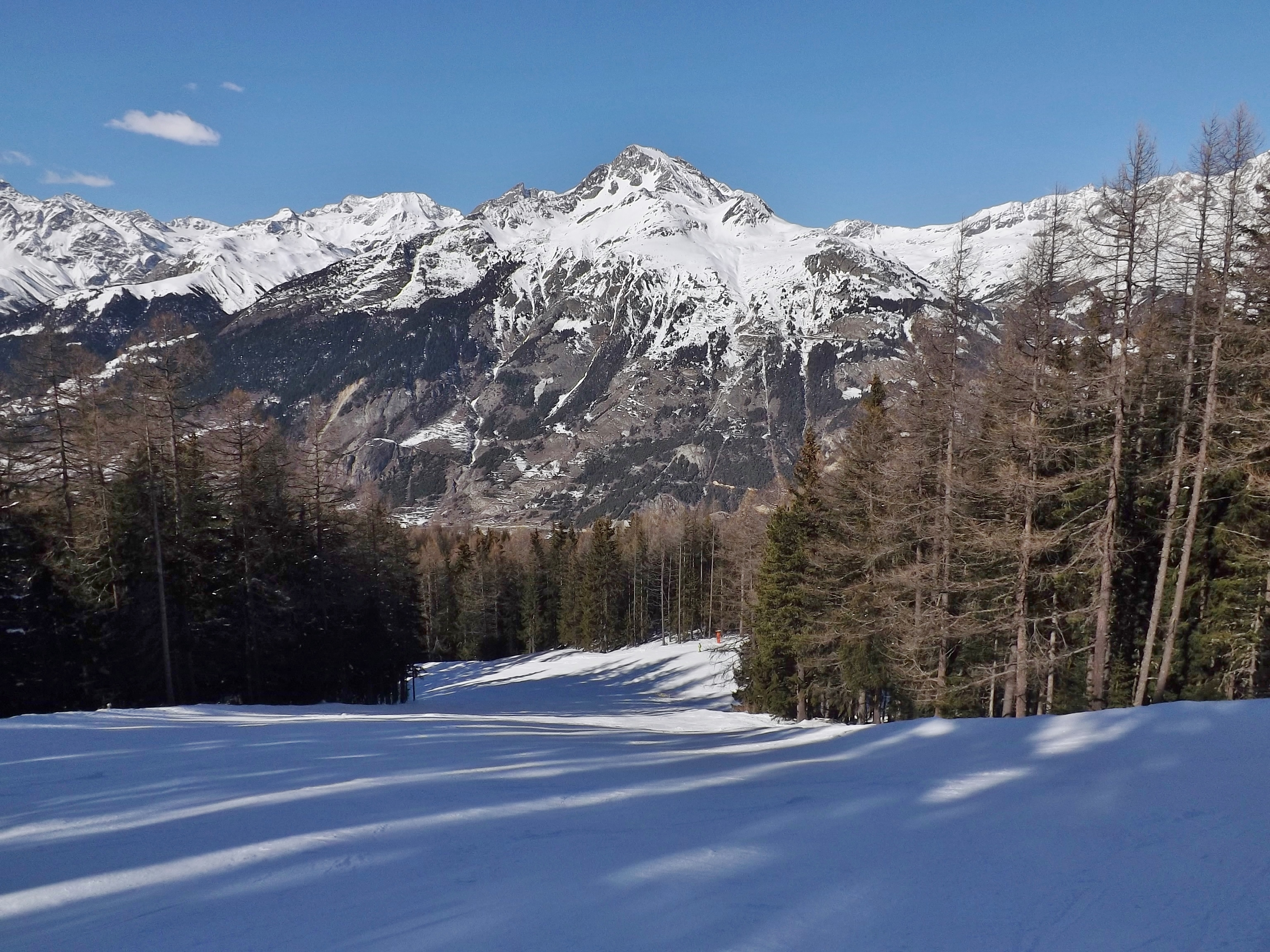 Sight of L'Arlette ski slope, in La Norma ski resort, Savoie, France.